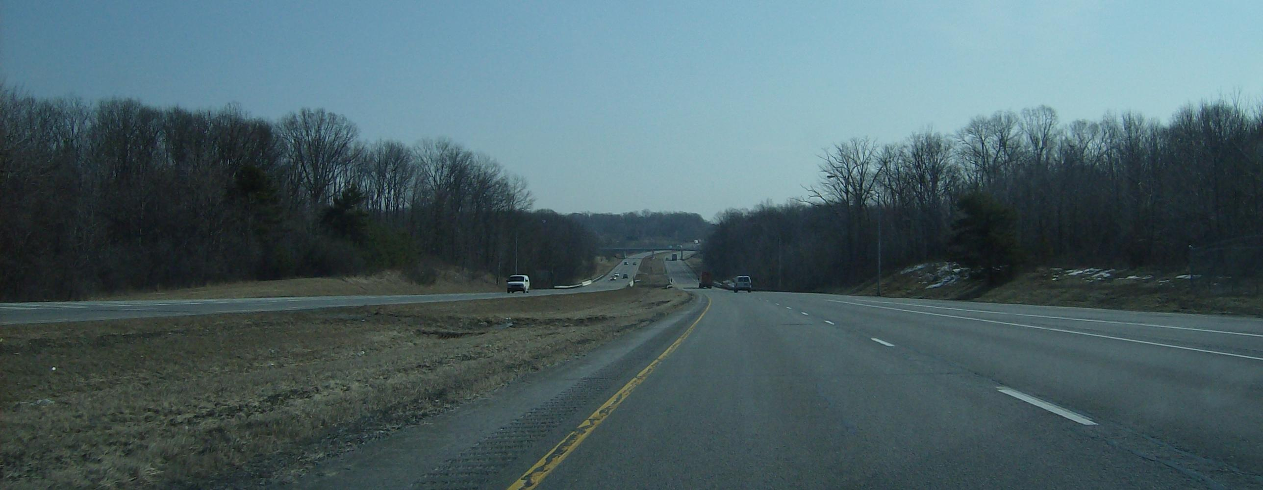 View of Interstate 76 in Edinburg Township, Portage County, Ohio, Portage County, Ohio, United States.